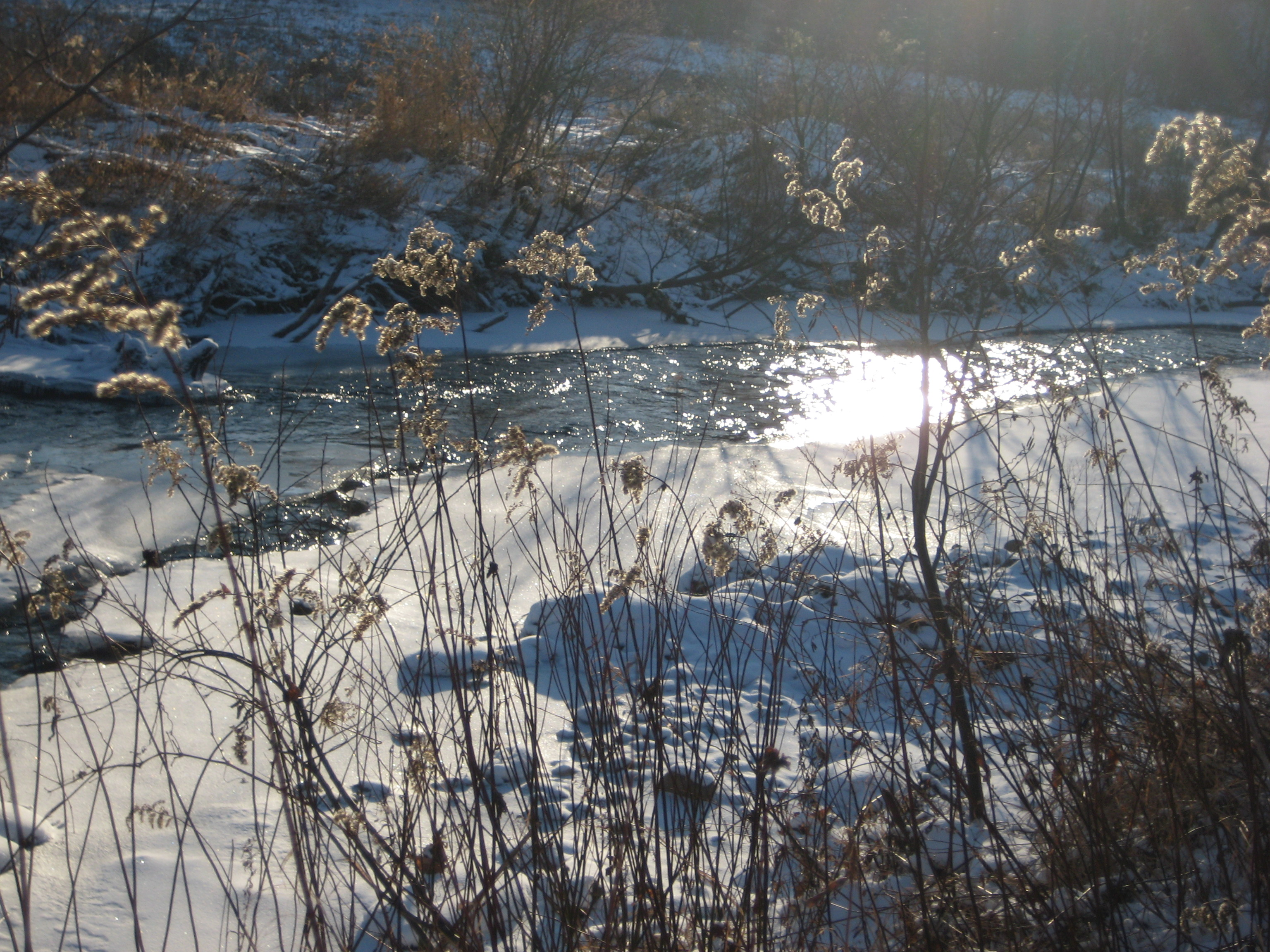 Lee River in Jericho, Vermont in February 2008.